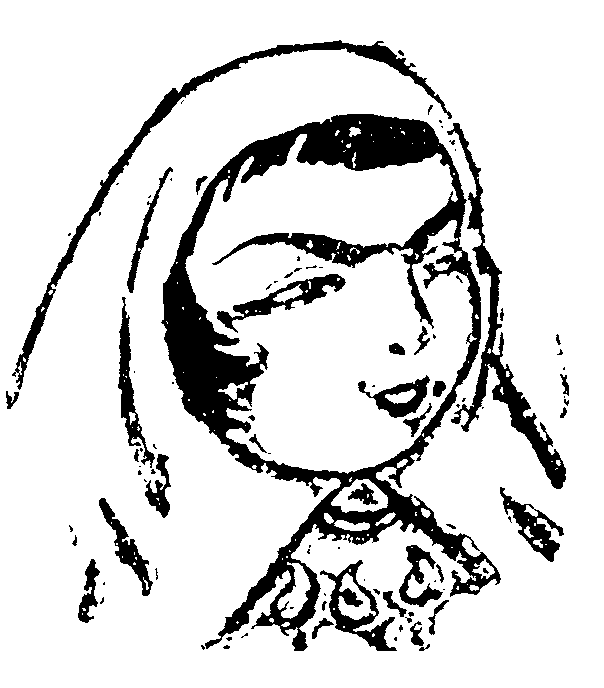 Aghabeyim agha Javanshir - 1956 drawing